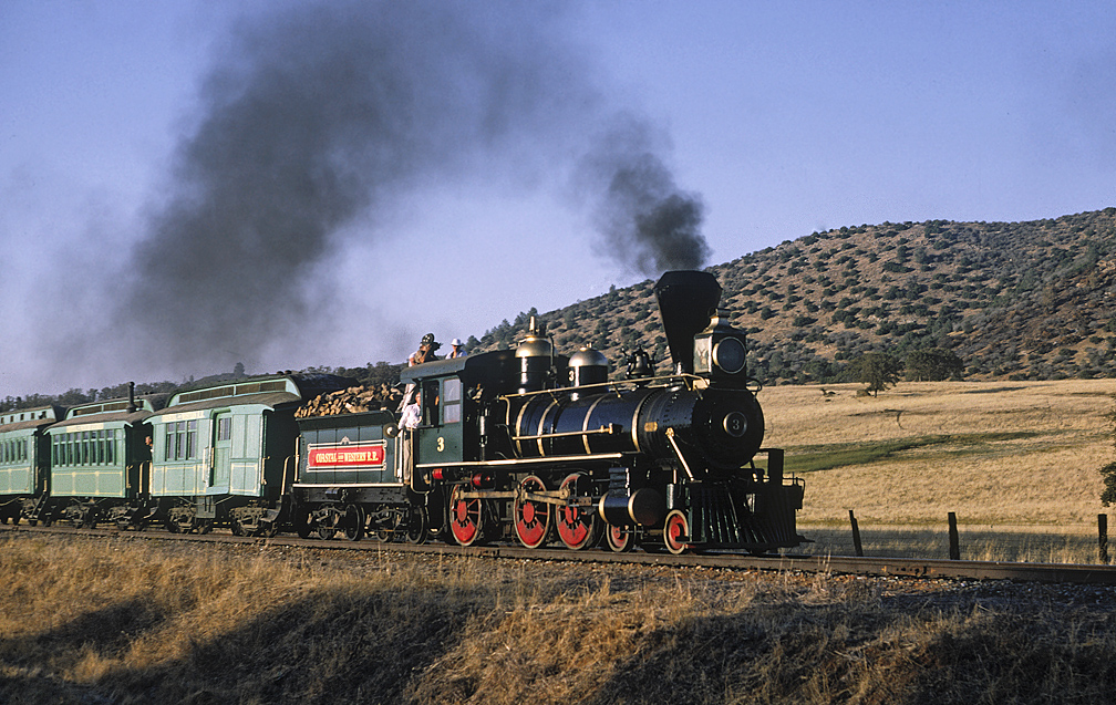 SRR 3 Movie train at Keystone Sept 1964xRP